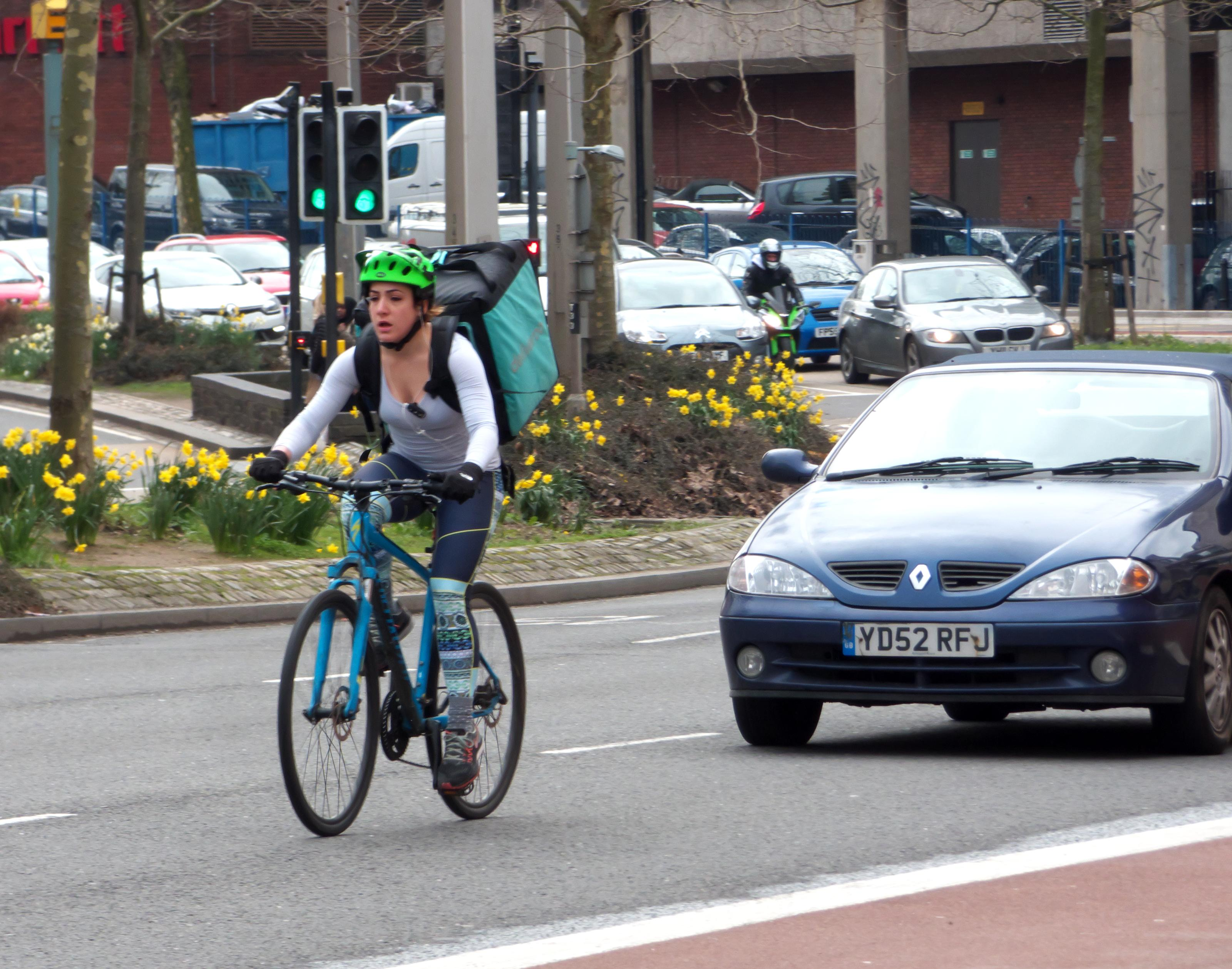 Deliveroo Rider Taking The Lane In Bristol